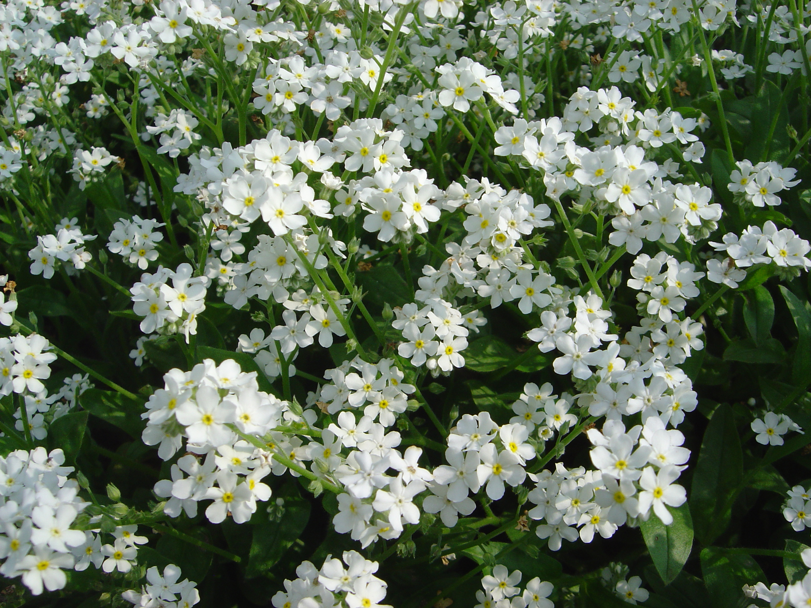 Myosotis sylvatica (Hoffm.) 'Snowsylva' En: Photograph taken at the Jardin des Plantes in Paris, France Fr: Photographie prise au Jardin des Plantes à Paris, France